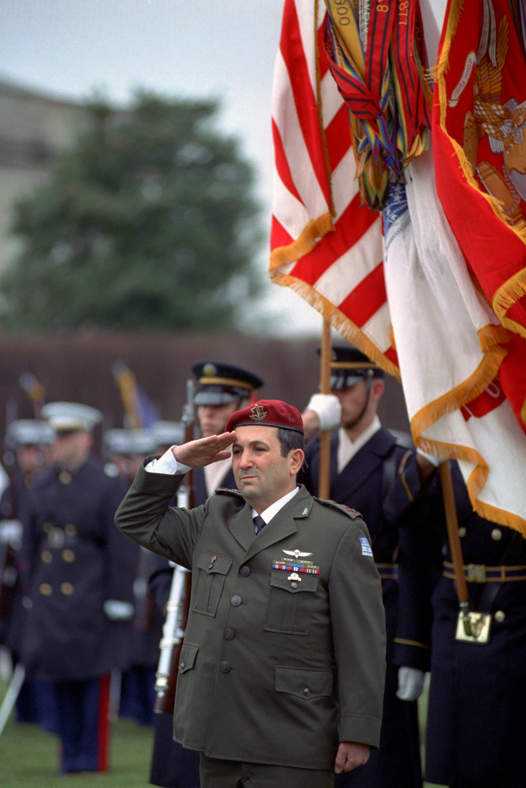 Chief of the General Staff, Israeli Defense Forces, Lt. Gen. Ehud Barak (foreground), renders a salute during a Joint Service Open House Ceremony, during his visit at the Pentagon on Jan. 14, 1993